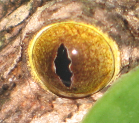 Eye of a Uroplatus sameiti (gecko). Personnal picture of my own animals.